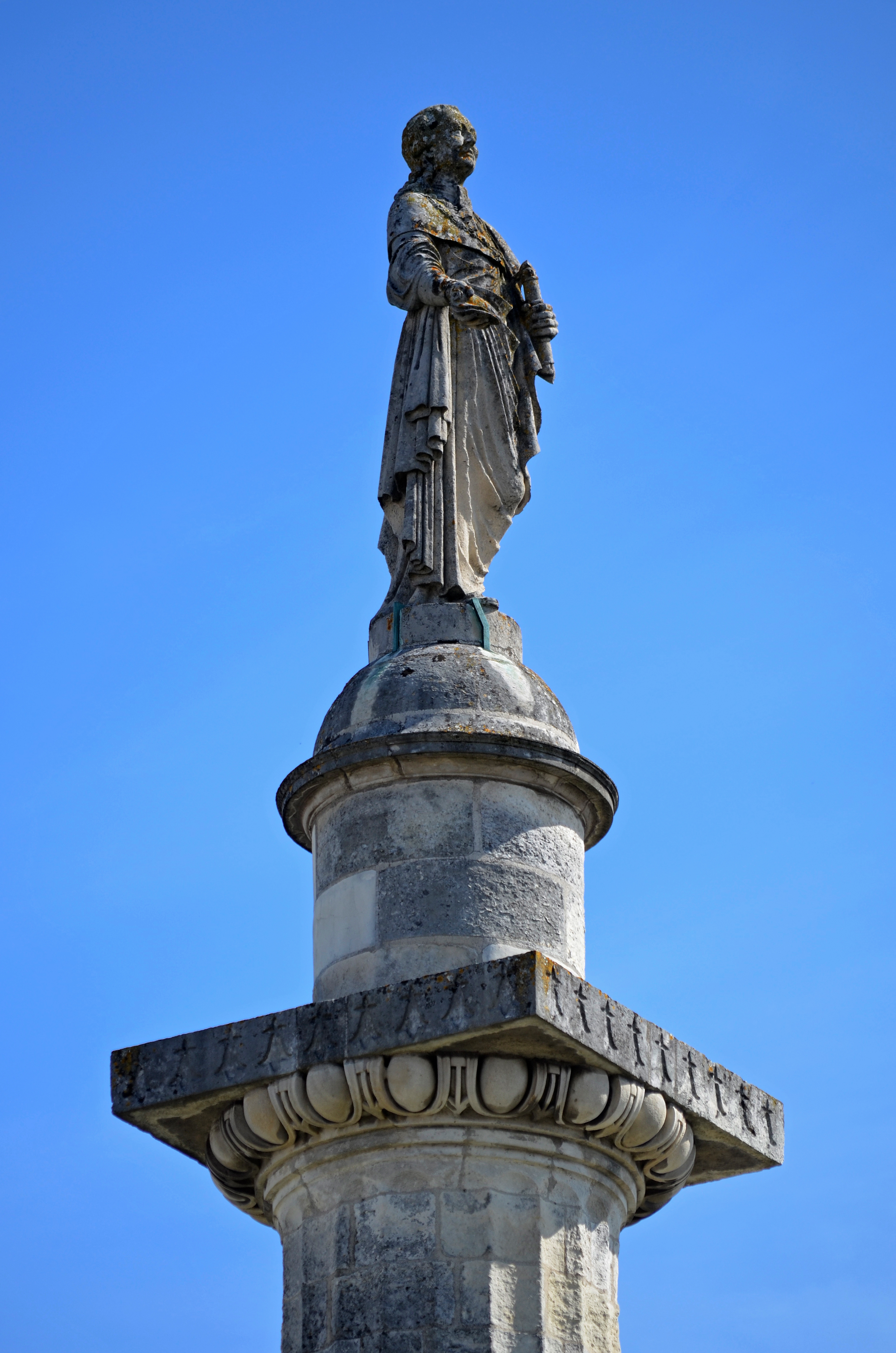 Louis XVI column (statue by Johann Dominik Mahlknecht) - Nantes, France